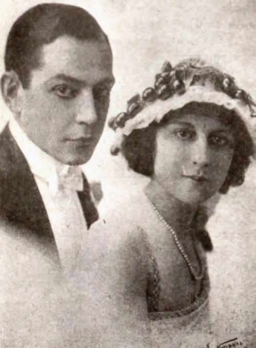 Actors Carter DeHaven and Flora Parker DeHaven, on page 60 of the June 26, 1920 Exhibitors Herald.